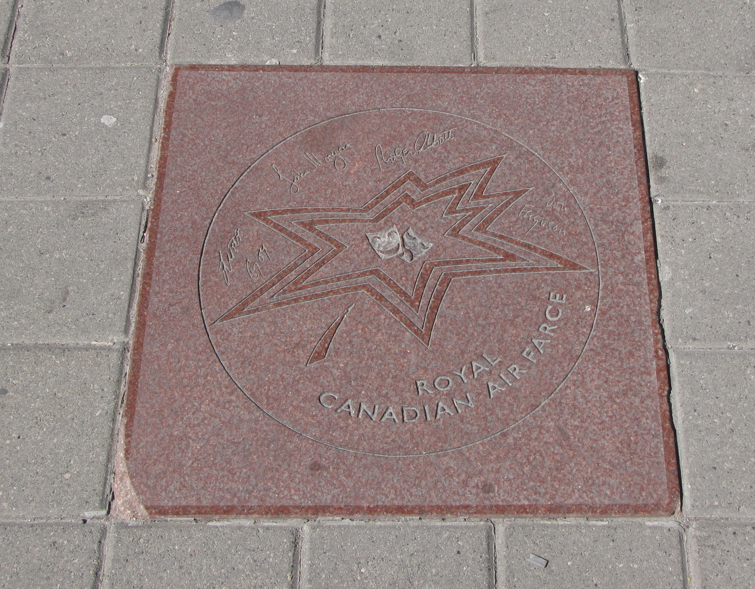 Star on Canada's Walk of Fame for the comedy troupe Royal Canadian Air Farce. Signatures are (from left): Luba Goy, John Morgan, Roger Abbott and Don Ferguson